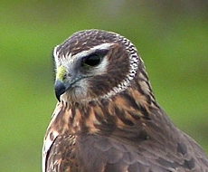 Hen Harrier, aka Northern Harrier (Circus hudsonius). I liked this for the strong facial disk capture. Las Gallinas Ponds, San Rafael, California